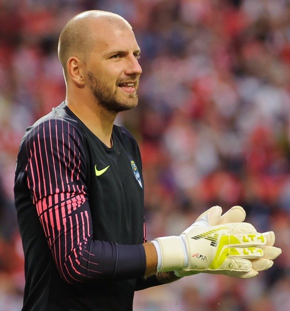 Nikolai Zabolotny with PFC Sochi in a game against FC Spartak Moscow.